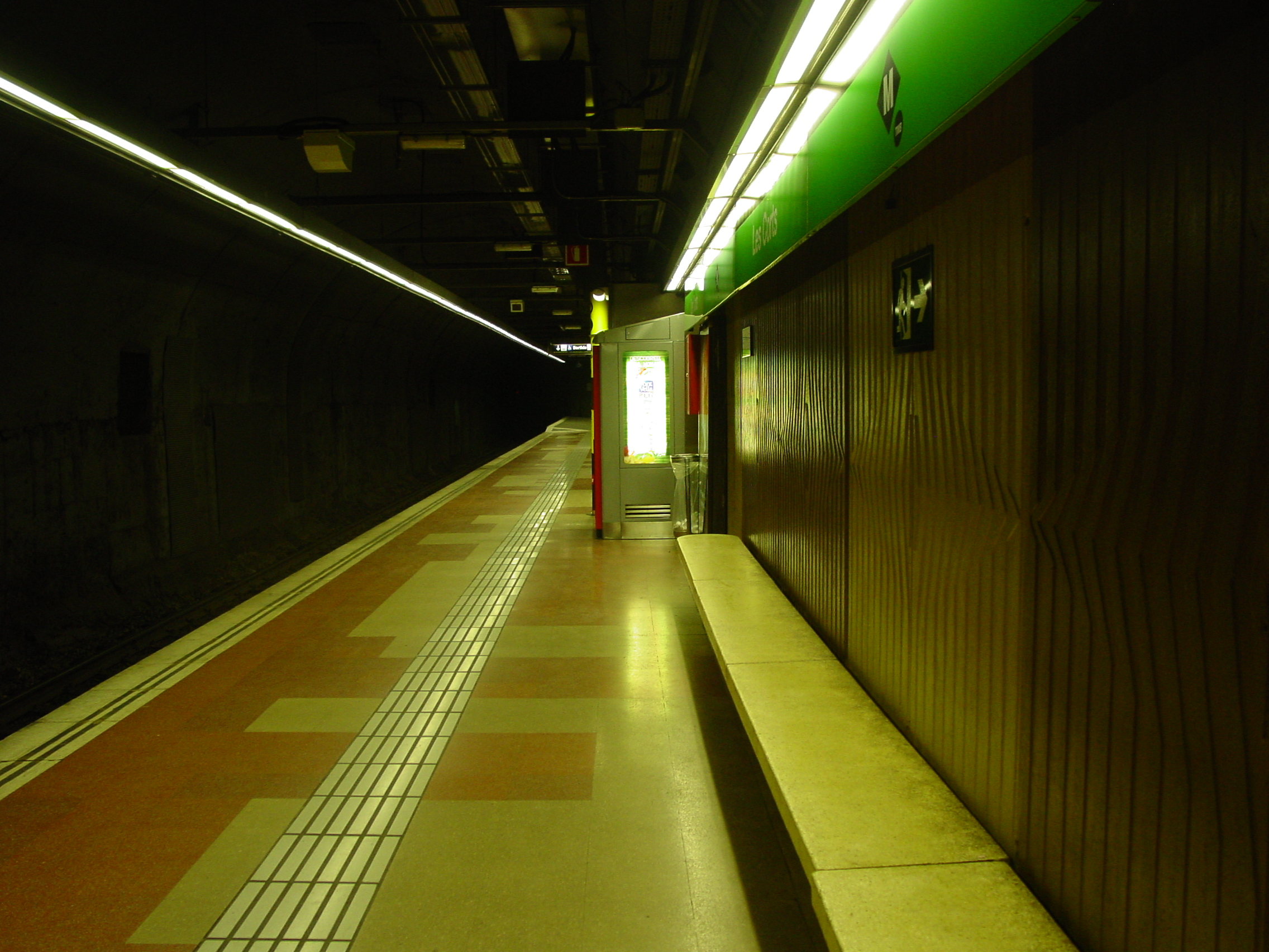 Platform view of Les Corts station, Barcelona Metro line 3. 3.9.2013